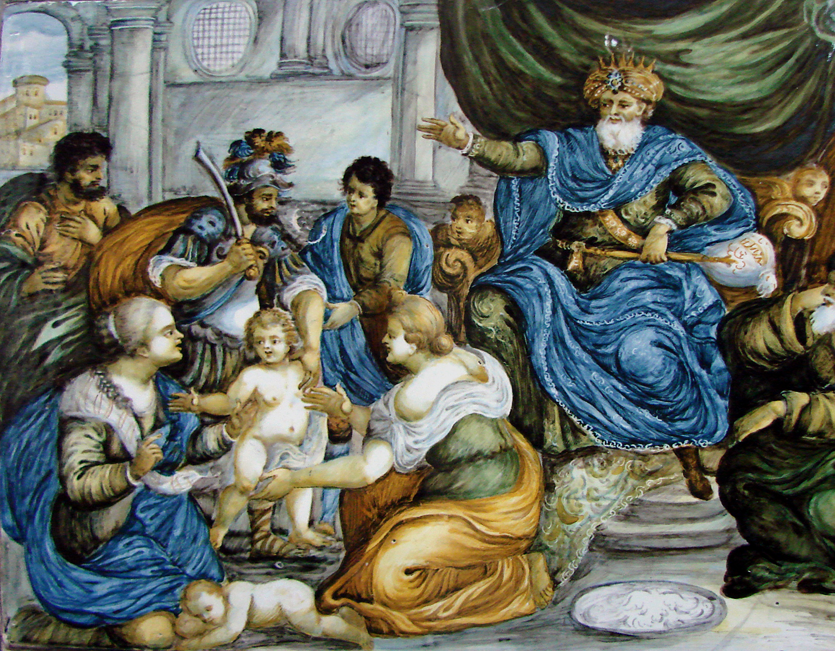 Painting on ceramic, representing the judgment of Solomon, , 18th century, Castelli, Italy. Lille Museum of Fine Arts.